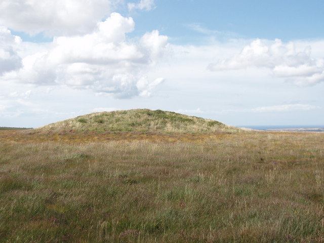 Tumulus on Rosenannon Downs. Rosenannon Downs is a nature reserve of Cornwall Wildlife Trust, see their web page The tumulus is one of a group of bronze age barrows.